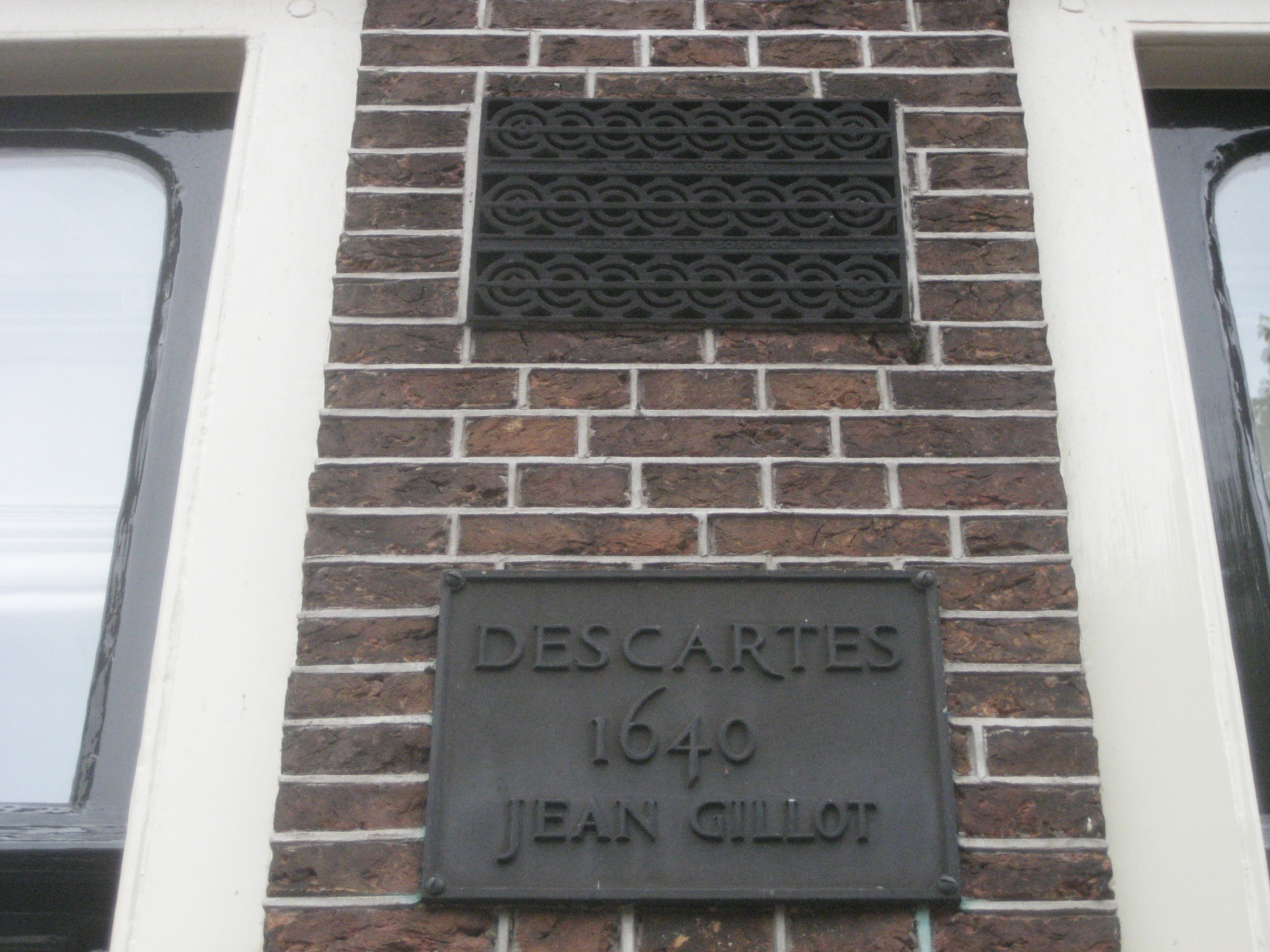 Memorial plaque at the house Rapenburg 21, Leiden (the Netherlands). In comm. of René Descartes, who lived here (1640-1641) in the house of French Hugenot Jean Gillot.